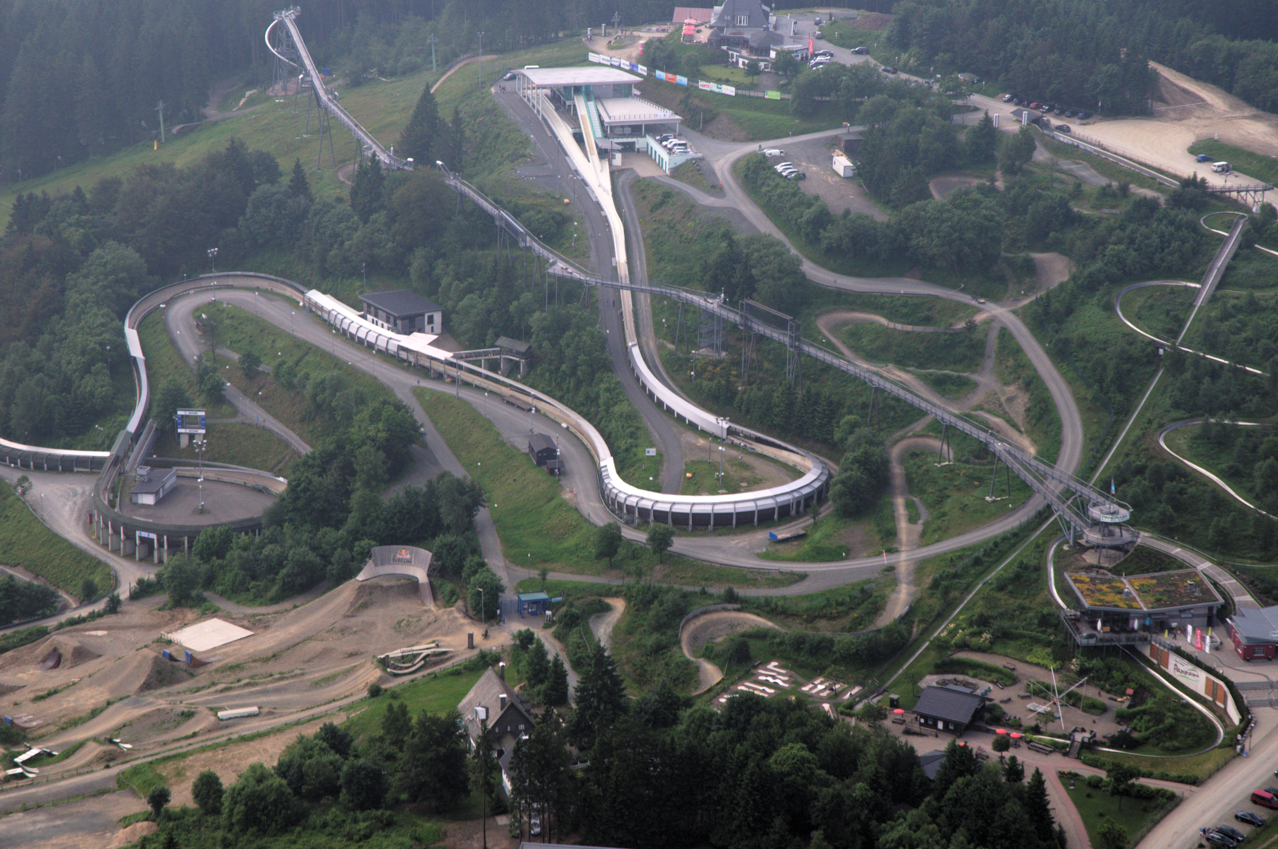 Fotoflug Sauerland-Ost: Berg Kappe in Winterberg; Bobhaus, Bobbahn, Sommerrodelbahn, Panoramabrücke. The making of this document was supported by the Community-Budget of Wikimedia Germany.